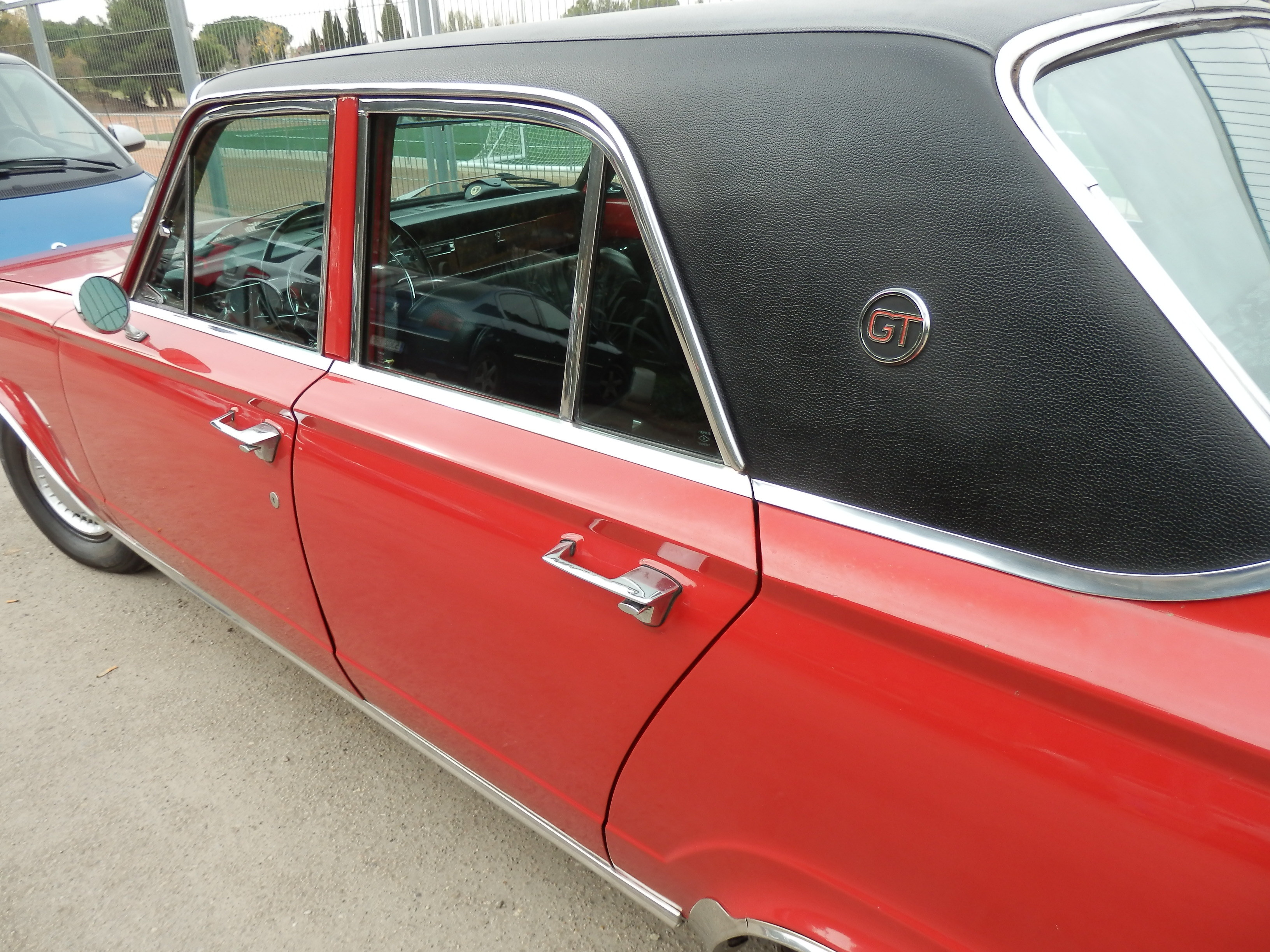 1969 Dodge Dart GT built by Barreiros Diésel S.A in Spain. Gasoline motor. 6 cylinder. 163 HP.